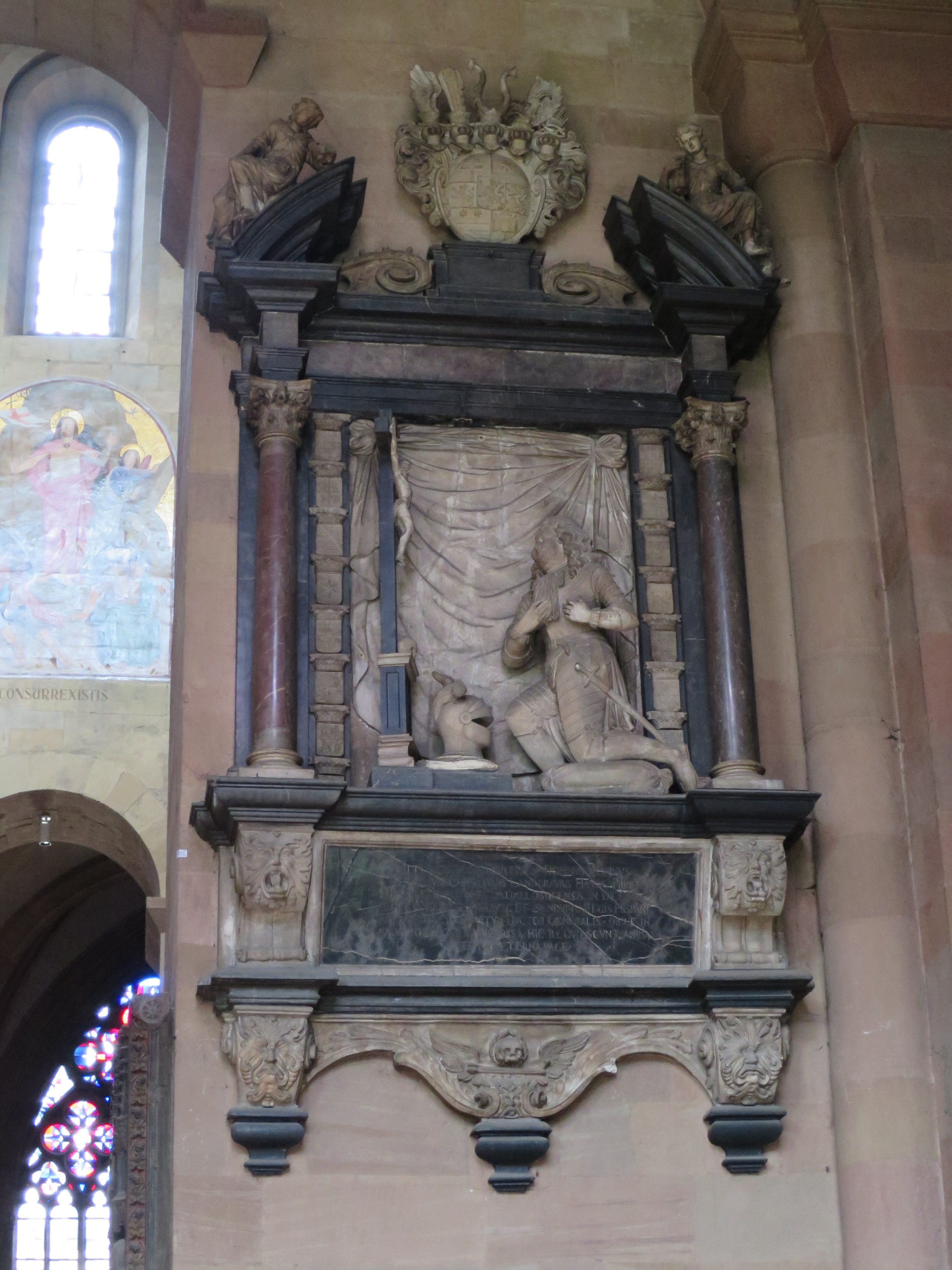 Tomb monument of Landgrave Georg Christian von Hessen Homburg in Mainz cathedral